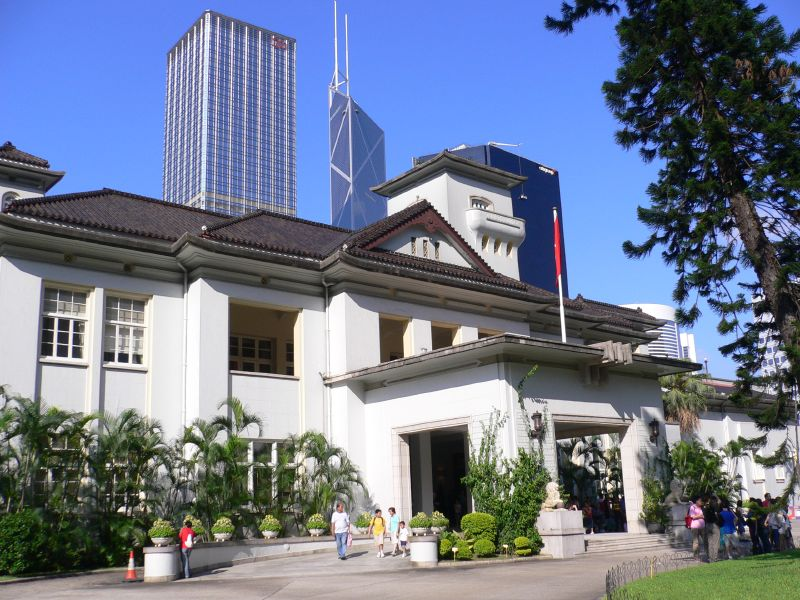 Government House 香港禮賓府